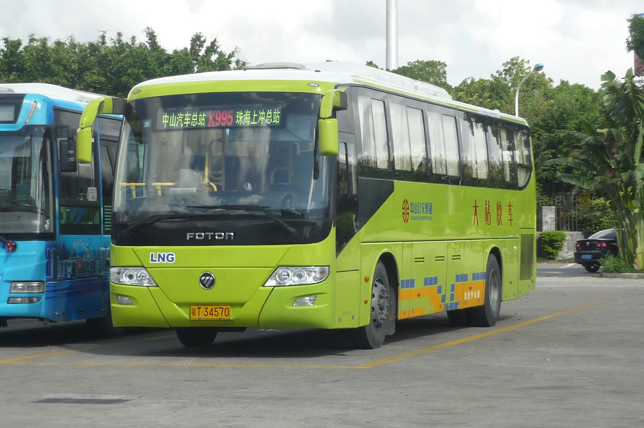 Zhongshan Bus Route K995